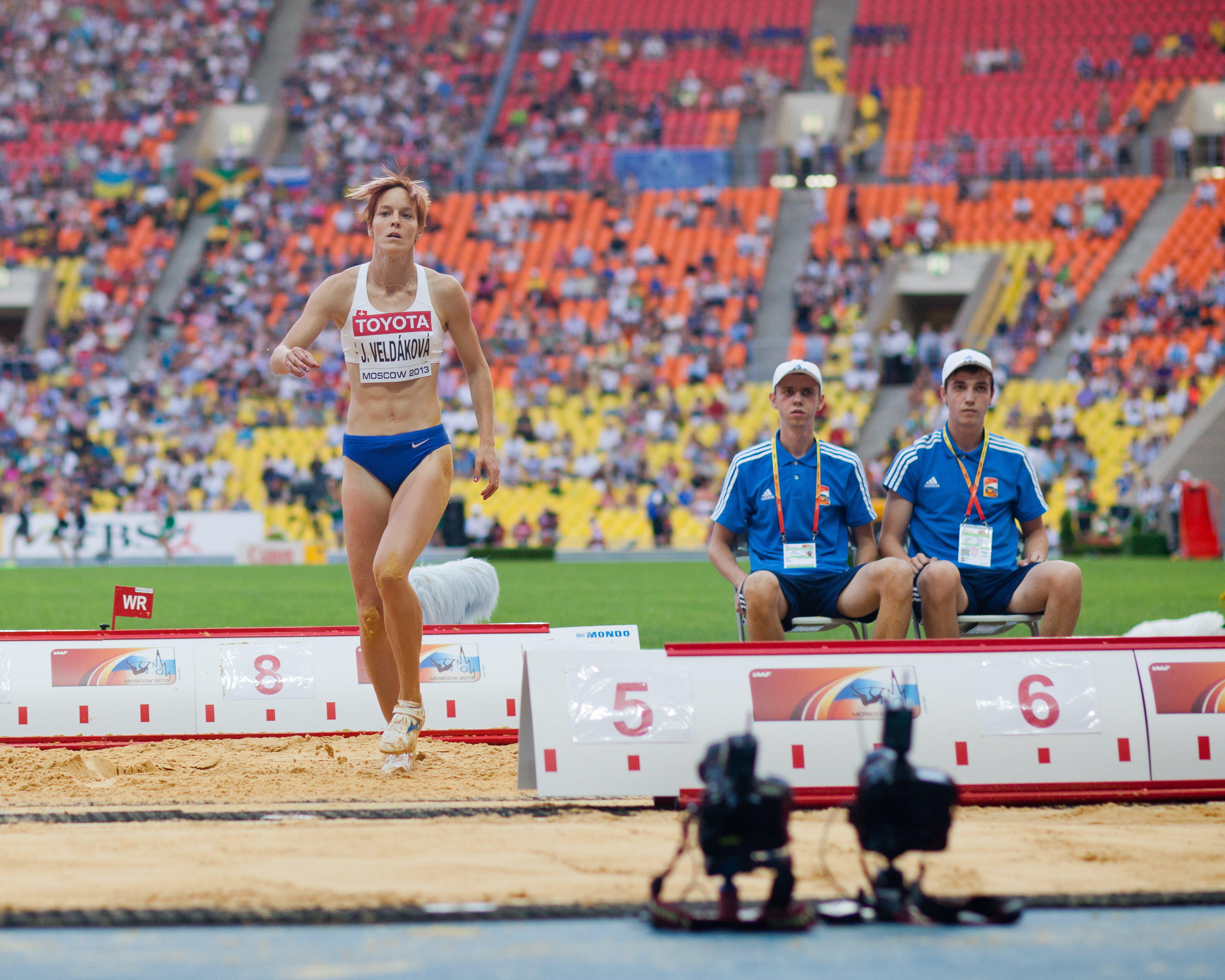 Jana Velďáková during 2013 World Championships in Athletics in Moscow.